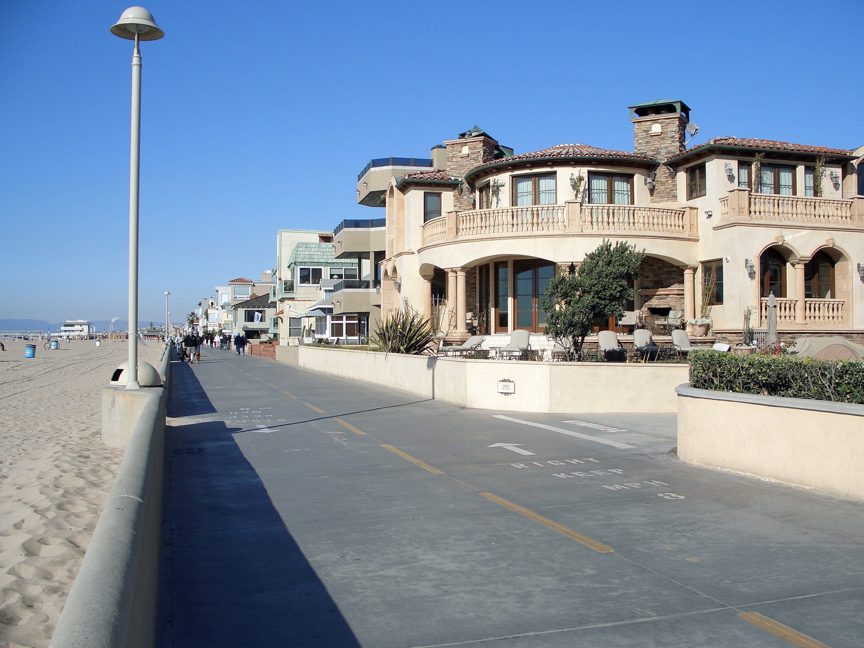 6th and The Strand Hermosa Beach taken January 15, 2007 Photographed and uploaded by user Strategy